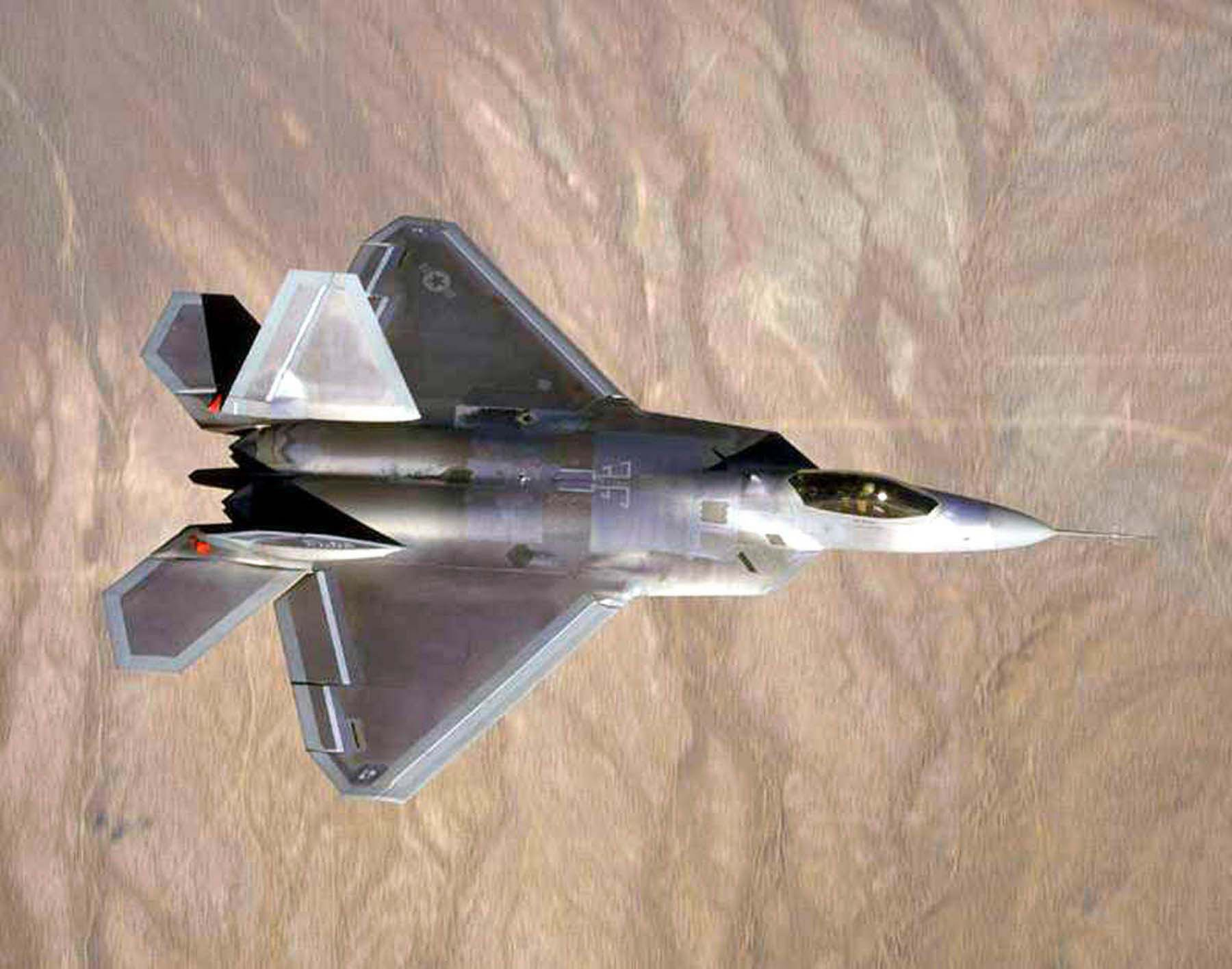 EDWARDS AIR FORCE BASE, Calif. (AFPN) -- Raptor 4002 passed its 300th flight-hour mark -- the first F-22 to do so -- during a Feb. 18 sortie from the Air Force's Flight Test Center here. The F-22 fleet is expected to grow in the coming weeks, as Raptor 4003 makes it maiden flight from Lockheed Martin's facility in Marietta, Ga., before joining the F-22 Combined Test Force here later this year.